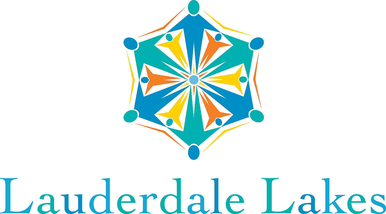 The official city seal of Lauderdale Lakes, Florida.